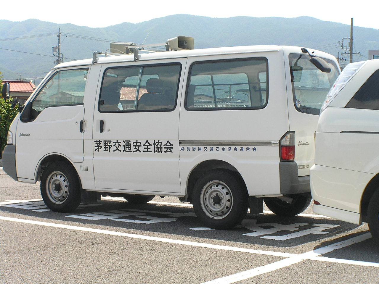 Nissan Vanette belongs to the Japan traffic safety association Chino dept.